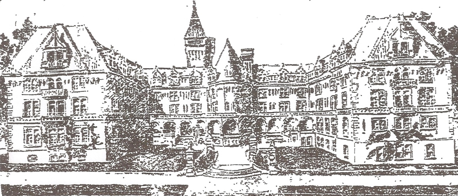 Image of Mary Andrews Clark Memorial Home, pulbished in the Los Angeles Times on Oct. 30, 1911, as part of an article on the home, titled "Work of Philanthropy soon to be Commenced."